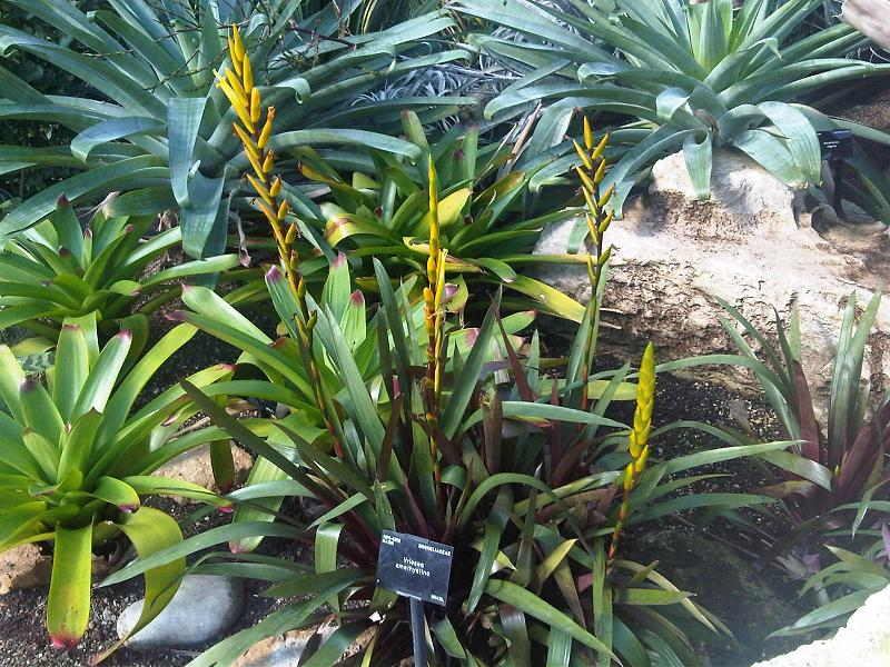 Vriesea amethystina in Kew Gardens, England.